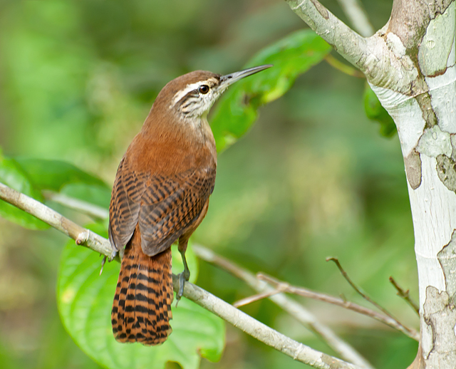 A Long-billed Wren in Registro, São Paulo, Brazil.